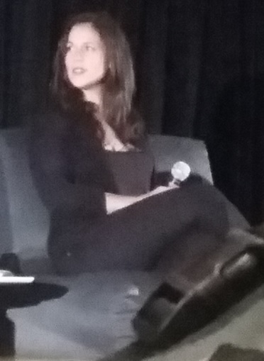 Victoria Sánchez photographed in Montreal, Quebec, Canada at the Montreal Comiccon 2016.